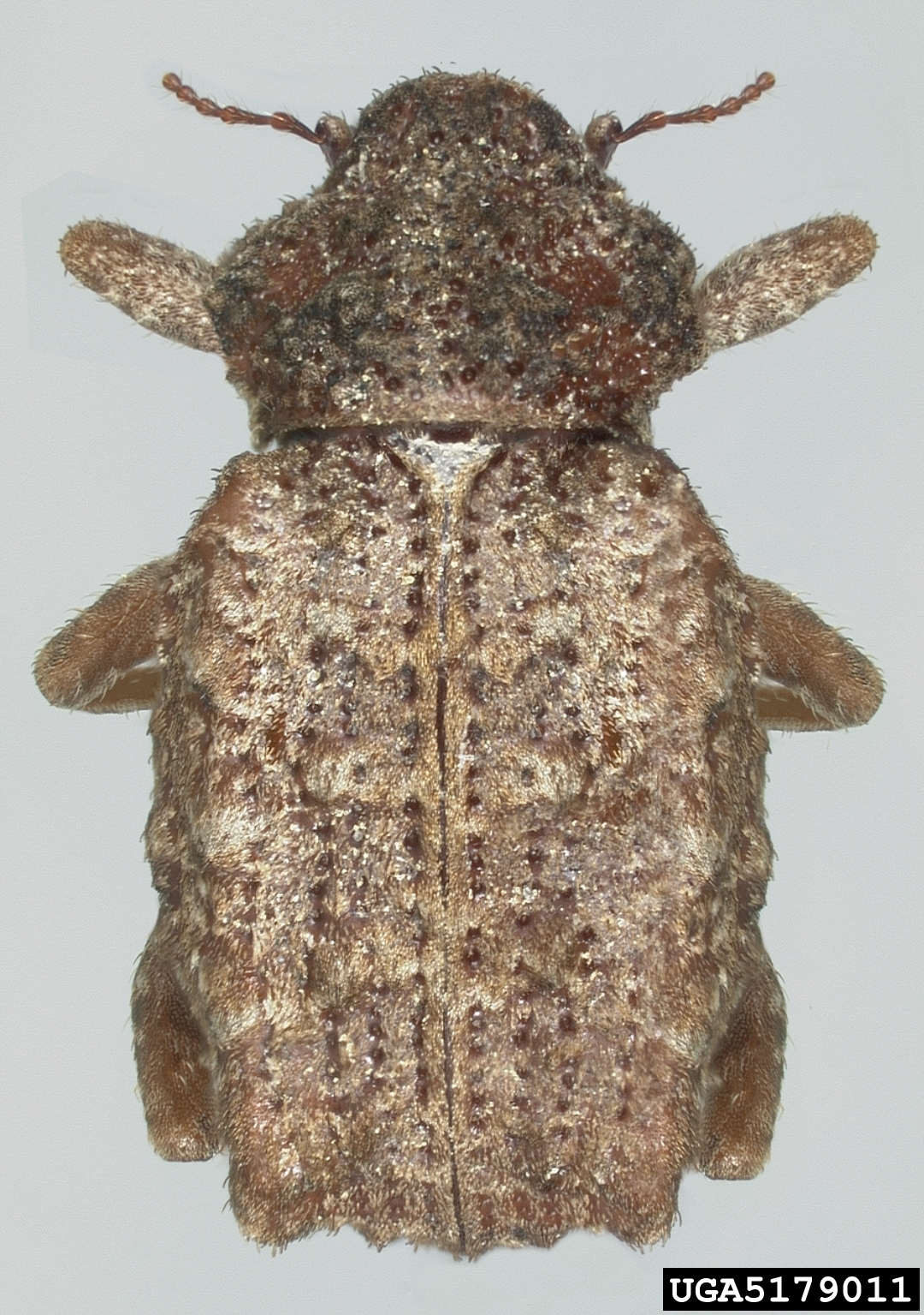 Andean potato weevil Premnotrypes vorax (Hustache, 1933), adult.